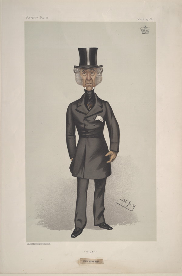 Statesmen No.394: Caricature of Lord Penrhyn. Caption reads: "Slate"